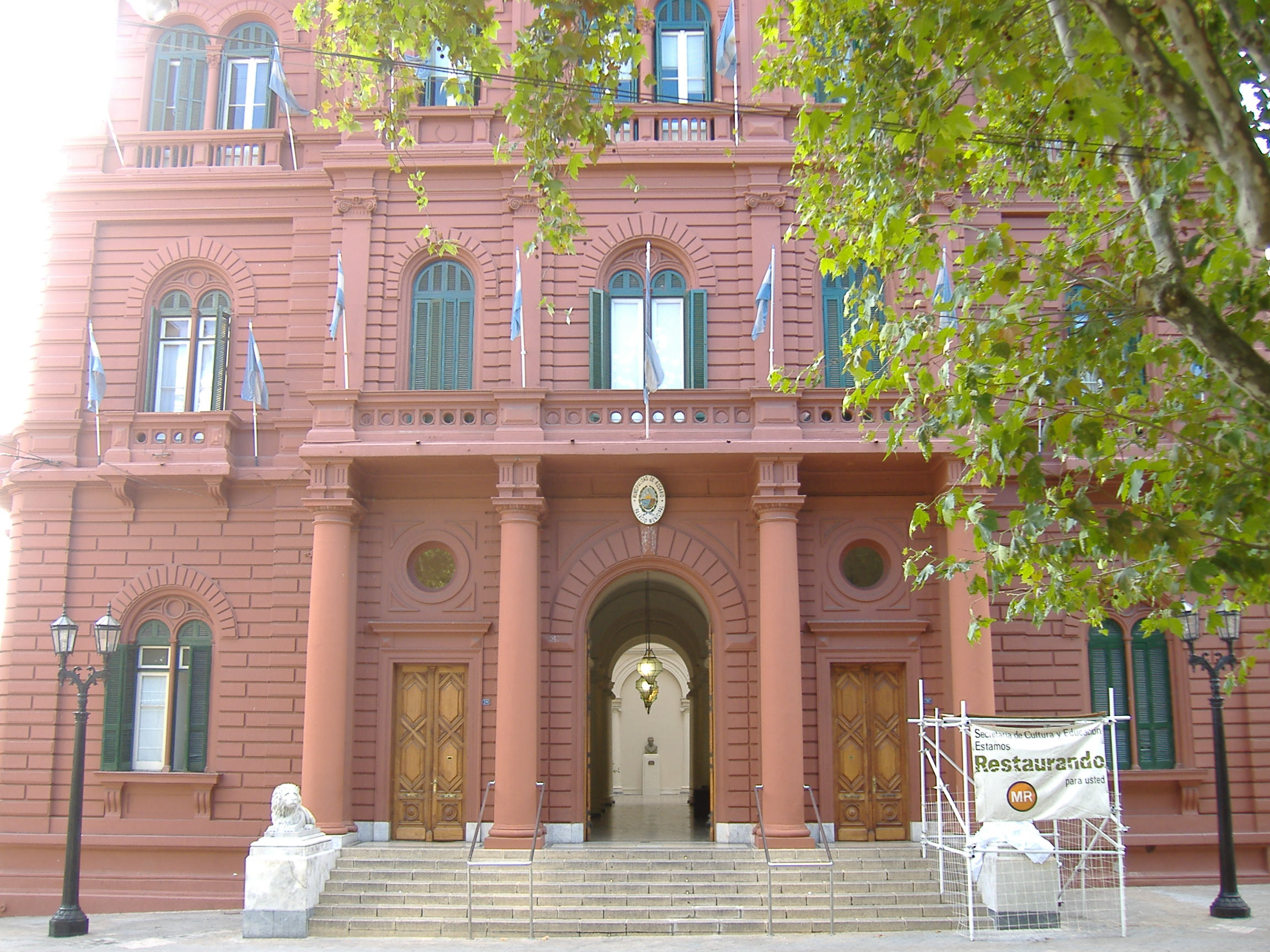 The Palacio de los Leones ("Palace of the Lions"), seat of the municipal executive branch in Rosario, Argentina (on Buenos Aires St. near Santa Fe St.). I, Pablo D. Flores, took this picture on 1 March 2006.